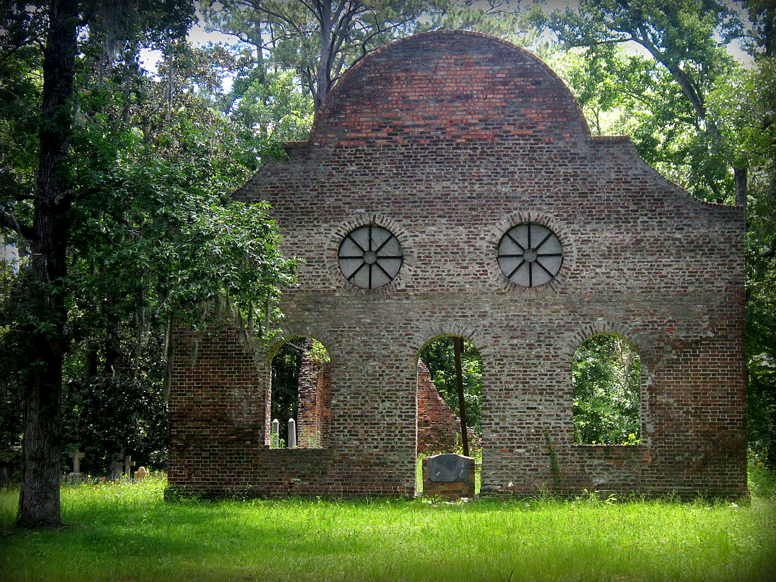 Pon Pon Chapel